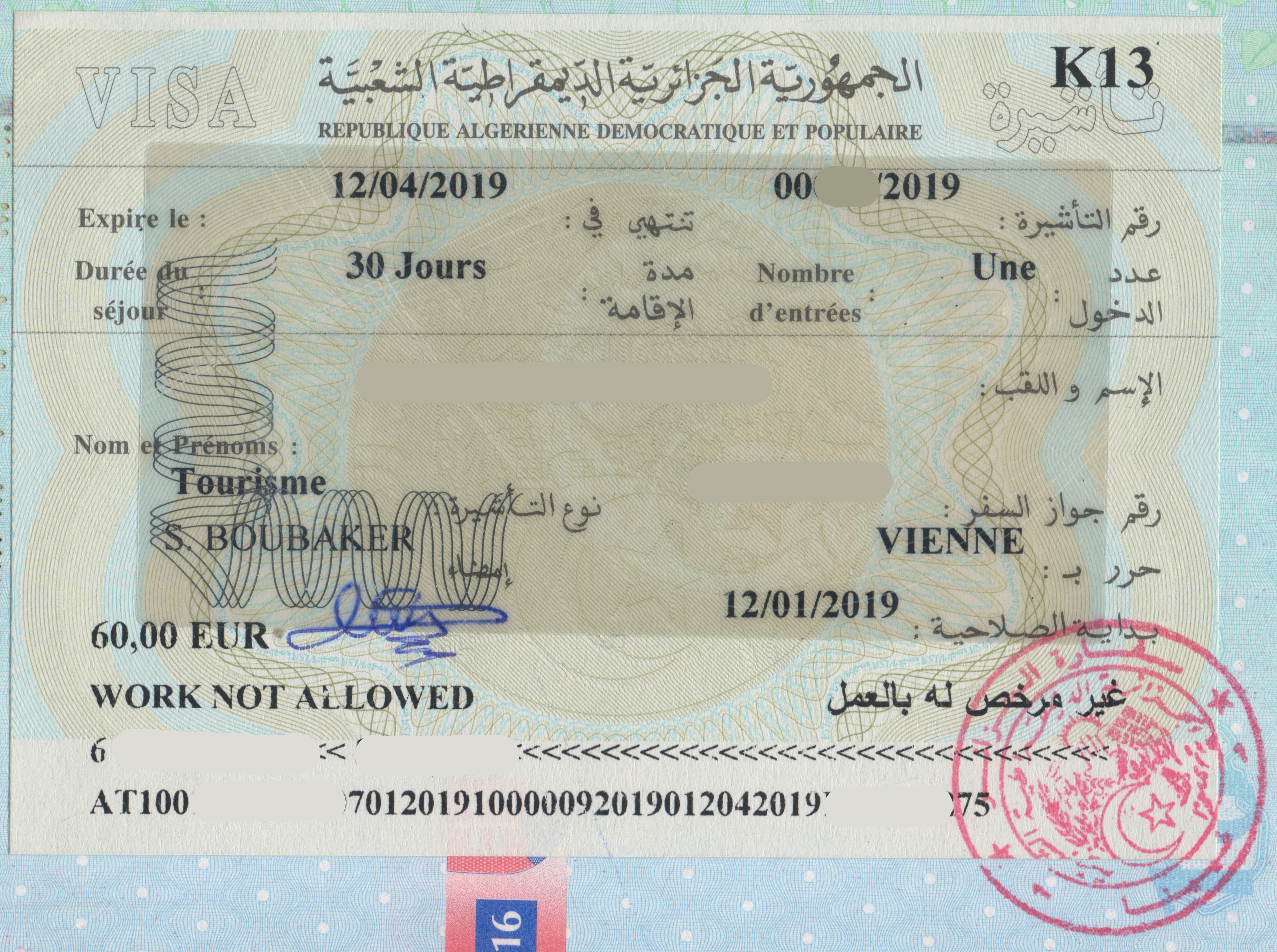 Scan of an Algerian visa issued in Vienna to a Slovak national